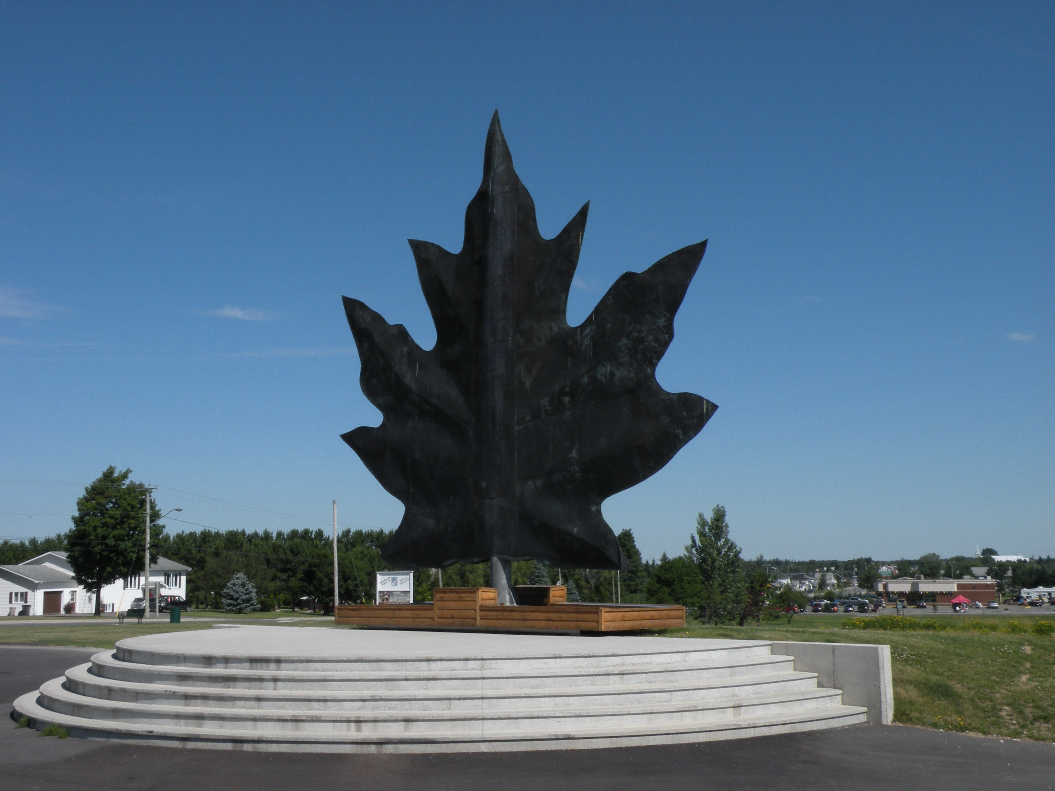 The giant maple leaf in Saint-Quentin, New Brunswick, Canada.